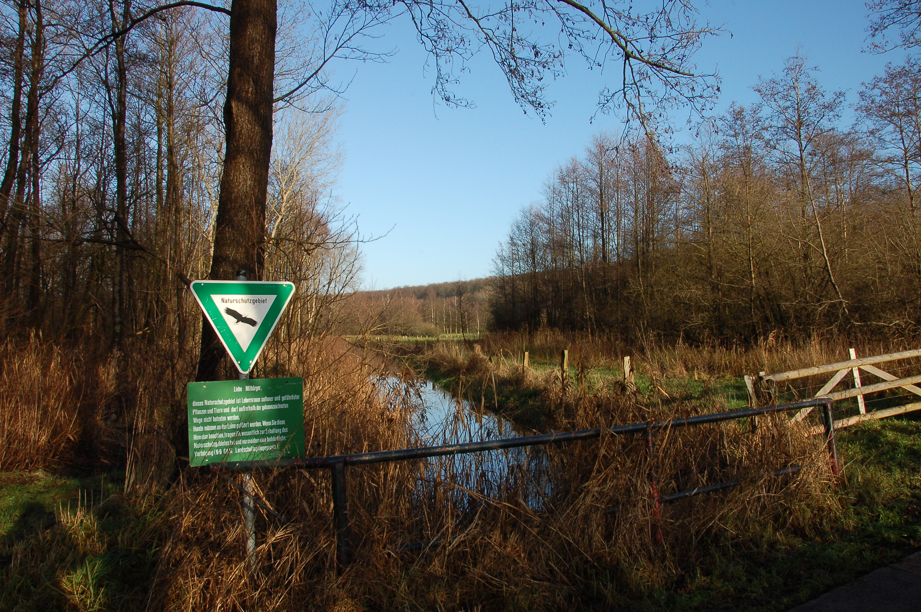 Inflow to lake Fuhlensee and nature reserve Fuhlensee und Umgebung.